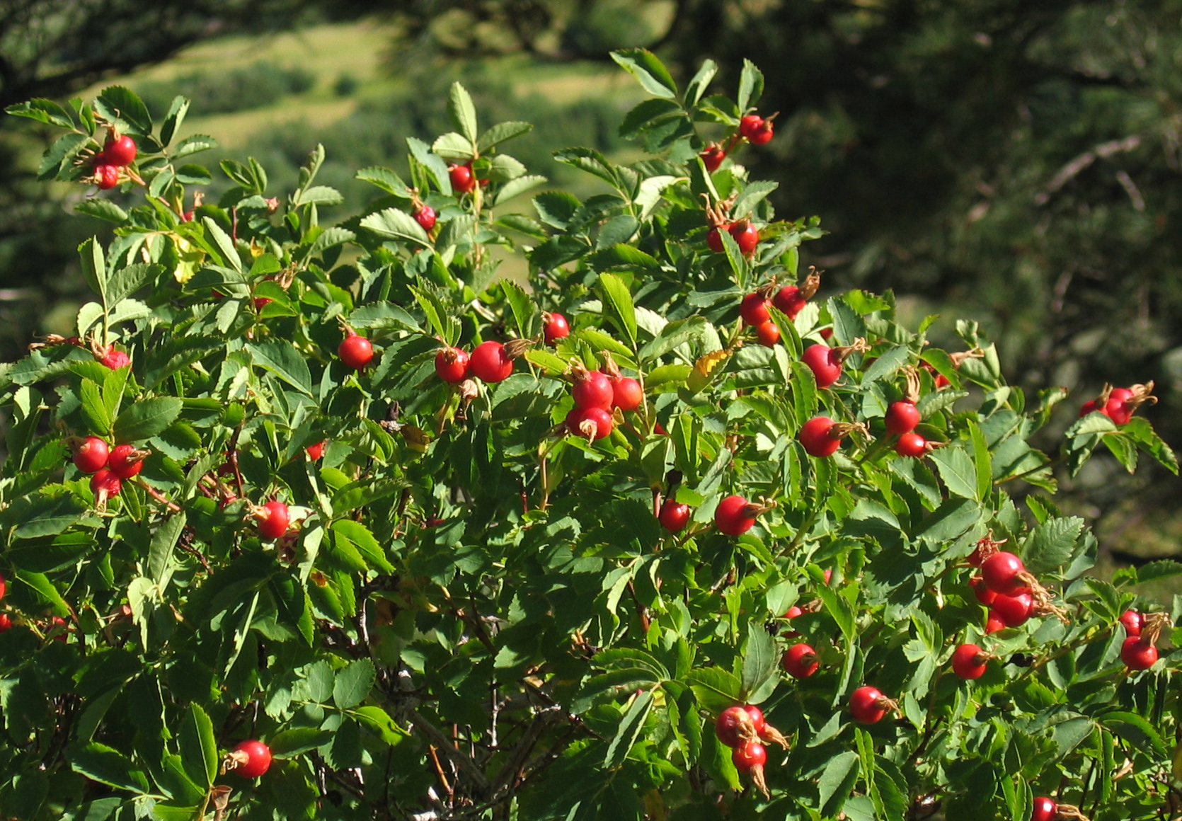 Woods' rose (Rosa woodsii) fruit (rose hips). At about 7000ft, Swall Meadows, Mono County, California.